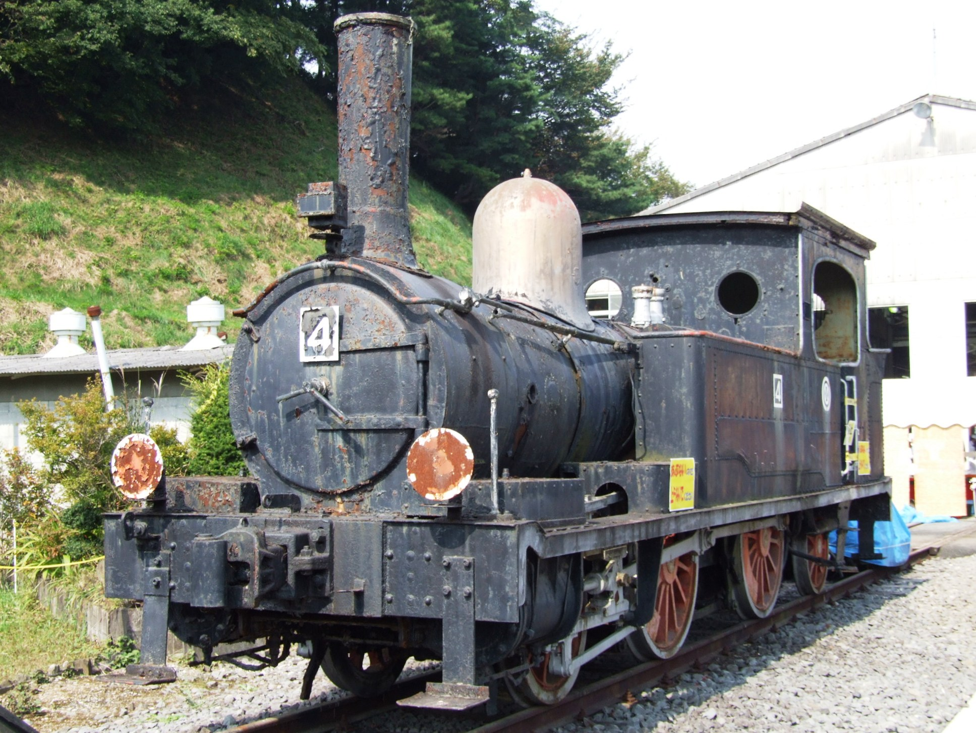 Locomotive 4,Seibu Railway,Japan